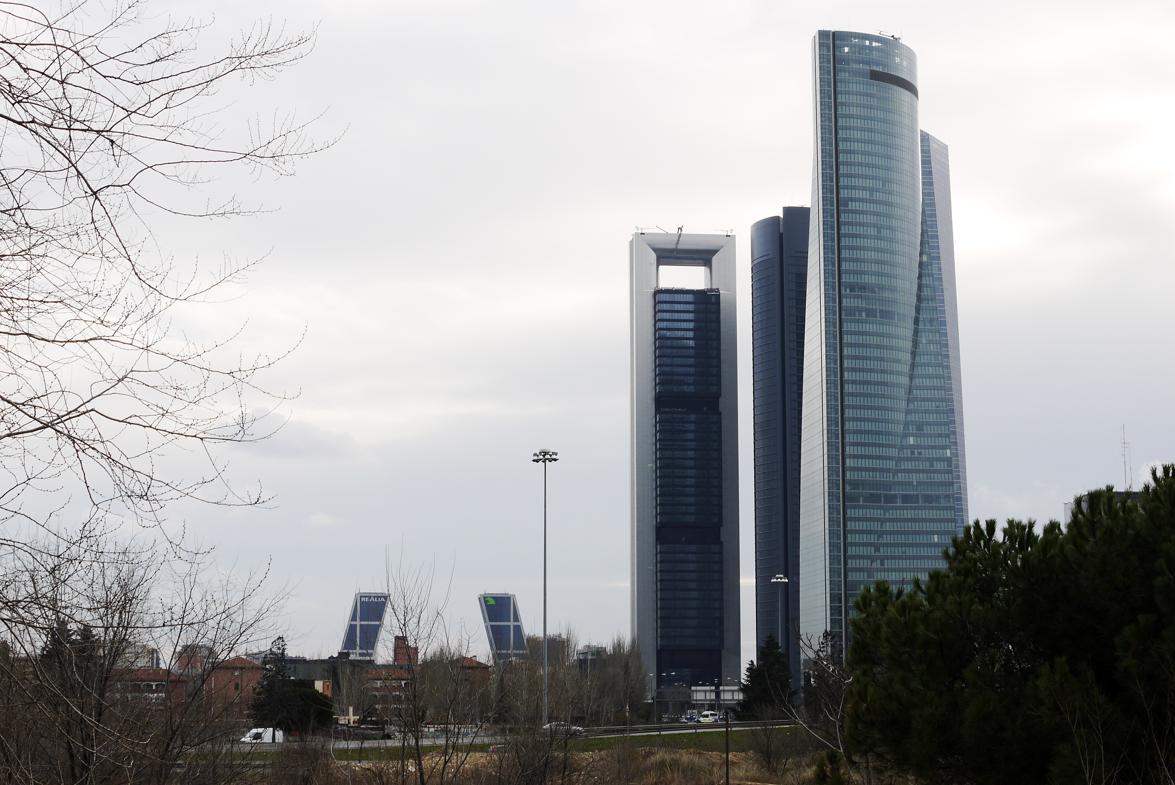 Madrid Cuatro Torres Busines Area, seen from the north. Madrid, Spain